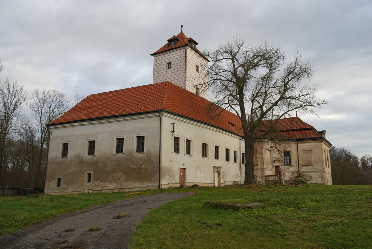 Chateau Lobkovice, 20 Palackého str., Neratovice, part Lobkovice, Mělník District. Memorable ginkgo tree at the chateau.